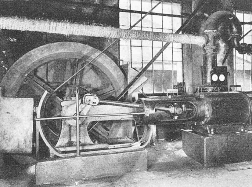 Piston compressor, which was installed 1878 in the salt mine of Bex, Switzerland. 1943 it was still in operation.